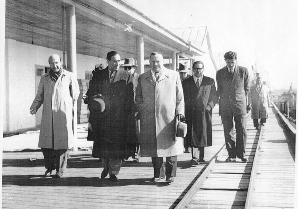 تحویل شیلات به ایران توسط اتحاد جماهیر شوروی. از دست راست مهندس بریمانی شخصیت فنی و مشاور رئیس هیئت، از اداره شیلات محمد علی سفری مدیر و سردبیر باختر امروز، پاملسوف نماینده اتحاد جماهیر شوروی، کشاورز صدر رئیس هیئت